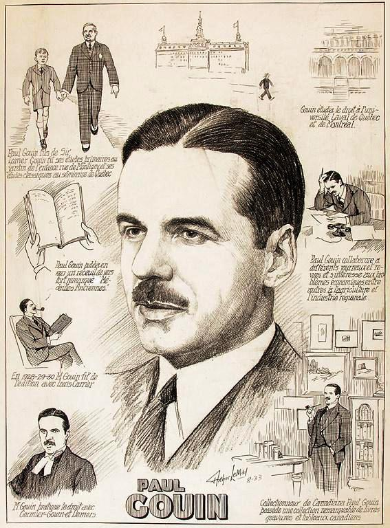 Caricature of Paul Gouin, a politician in Quebec, Canada.